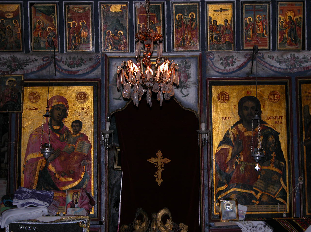 St. Mother of Got church, Lešok Monastery, Macedonia